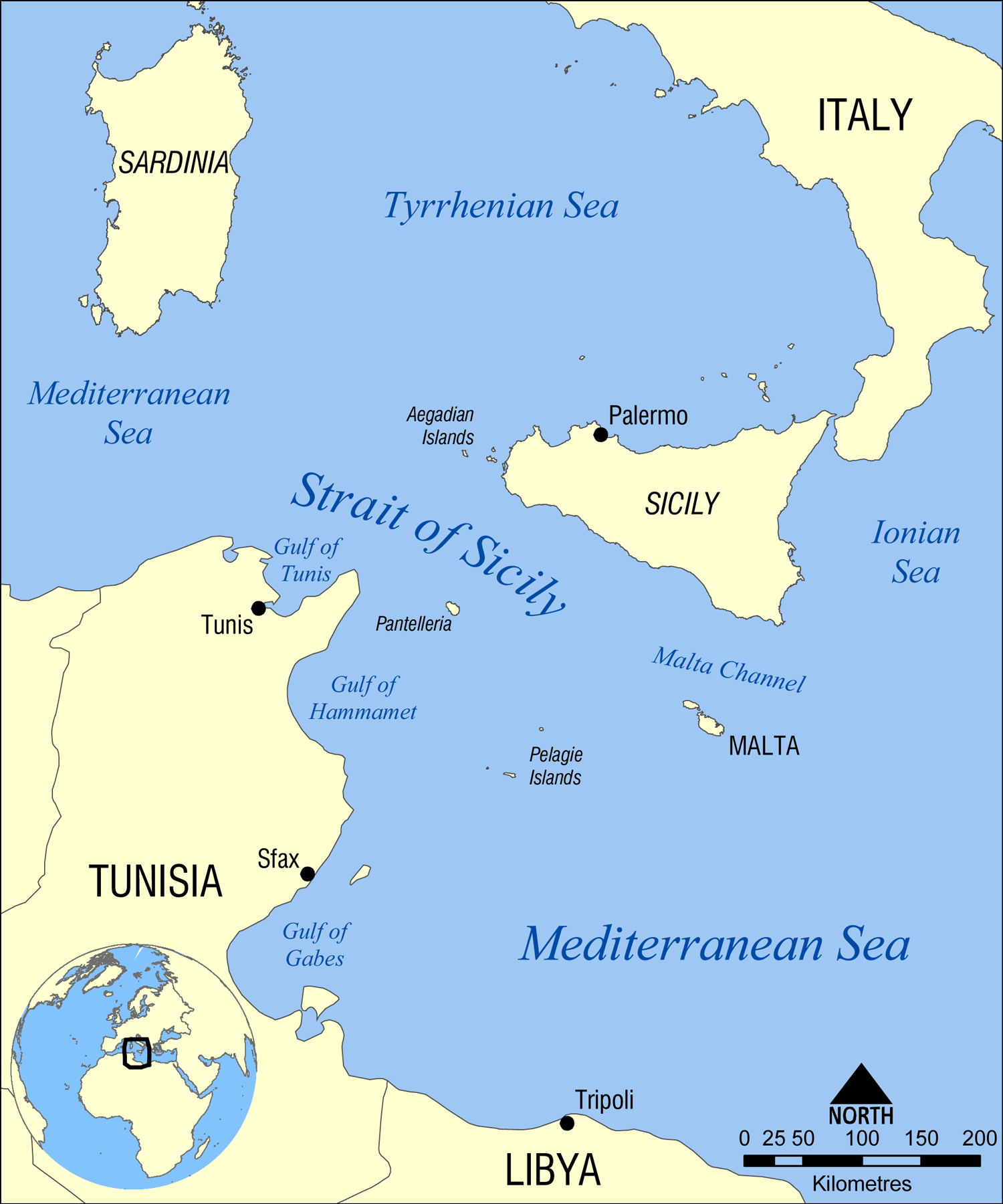 Map showing the location of the Strait of Sicily, between Sicily, Italy in Europe and Tunisia in Africa.